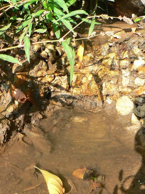 The beginning of Kova river (the outer part)